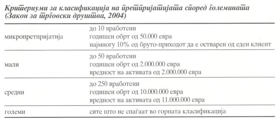 Table of criteria for classification of the enterprises